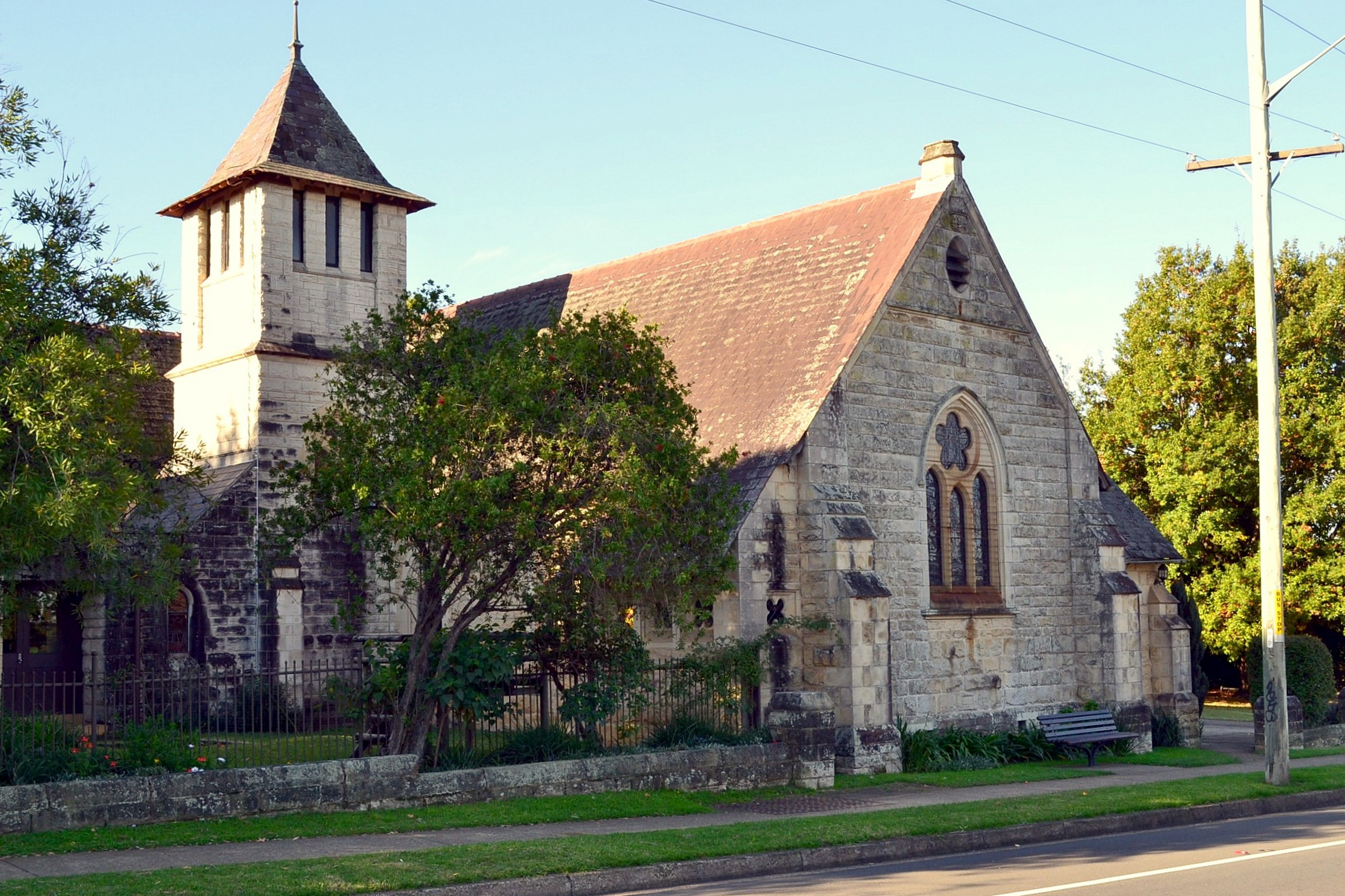 Christ Church, Springwood, NSW, Australia